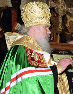 Patriarch Alexis II in ceremonial attire.